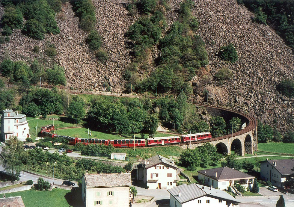 Spiral bridge in Brusio on the RhB Bernina line.